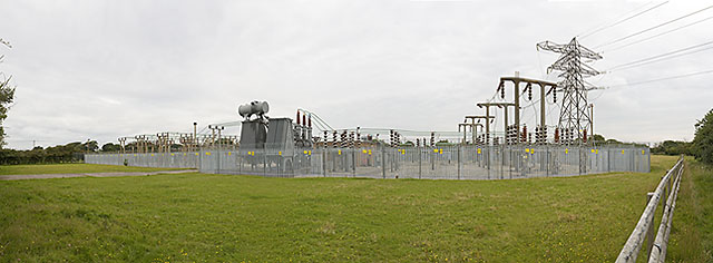 Langley electricity substation 120 degree panoramic view, from footpath. This substation takes 132 KV power via two underground cables from Fawley. It passes this on via overhead lines to Lepe (see 515993 ) whence it goes under the sea to Gurnard on the Isle of Wight and thence to the Wootton Common substation there. This substation also transforms the 132 KV down to 33 KV for use at 515944 and also locally for powering Langley and surrounding area. Quite large parts of this substation are obsolete, because there used to be a second line of pylons going to Lepe (from the lefthand side of the substation) which has now been removed.